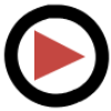 Divisional patch (Red arrow in black circle) for the British 15th (Scottish) Division.